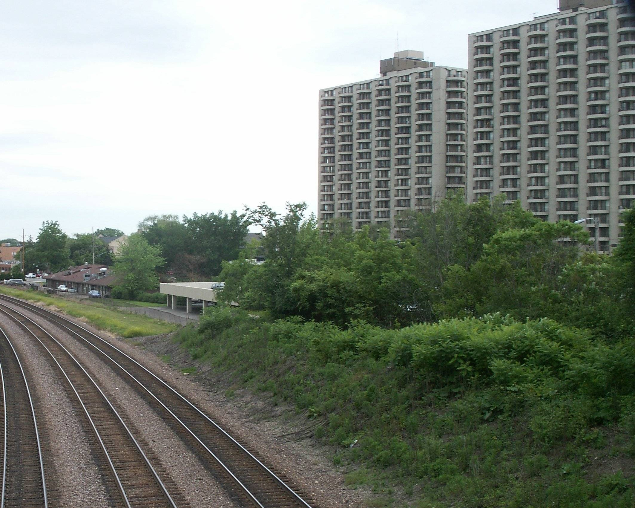 photo taken from Illinois Prairie Path Pedestrian bridge, west of downtown